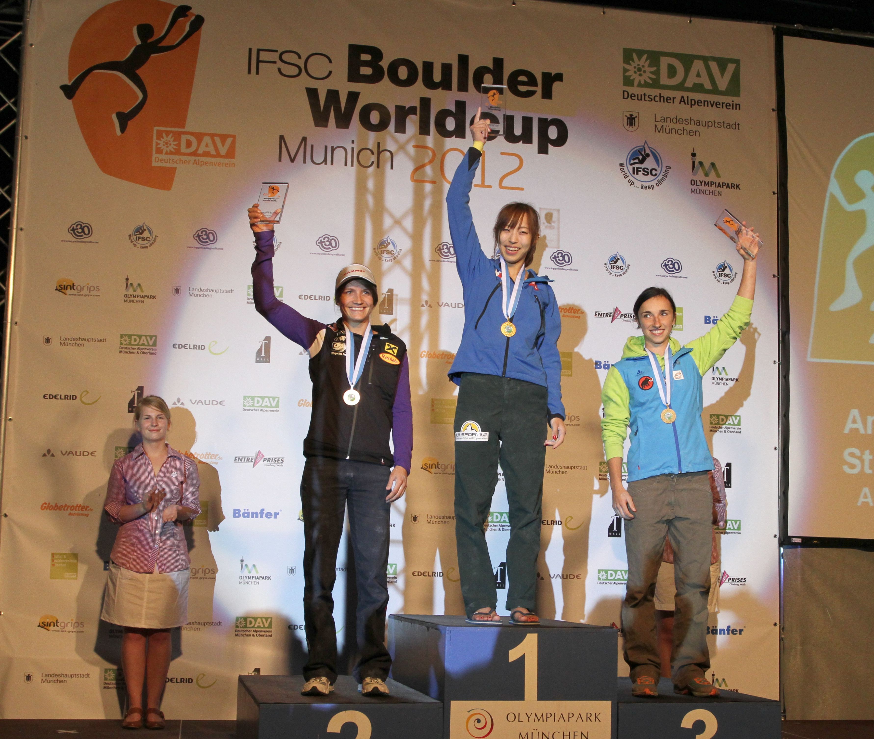 Female winners of the Climbing Worldcup event in Munich, 1. Akiyo Noguchi JPN 2. Anna Stöhr, AUS, 3. Juliane Wurm, GER